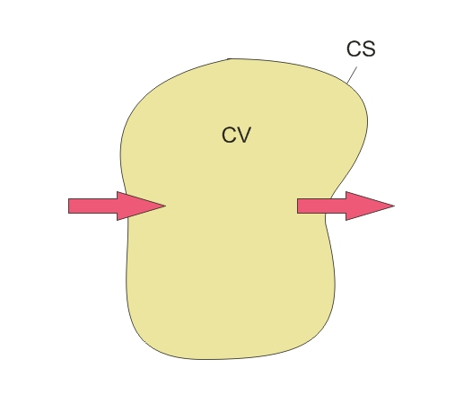 Schema of control volume in fluid dynamics